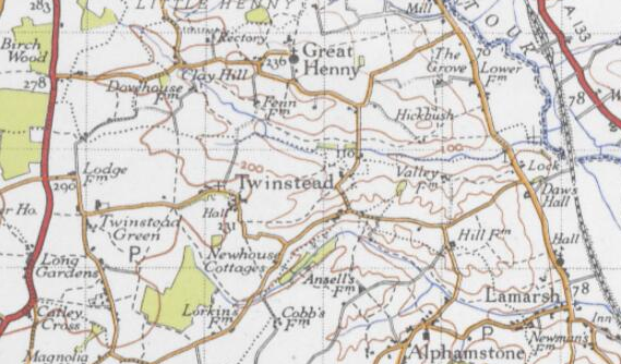 This is a 20th Century map of the area of Twinstead